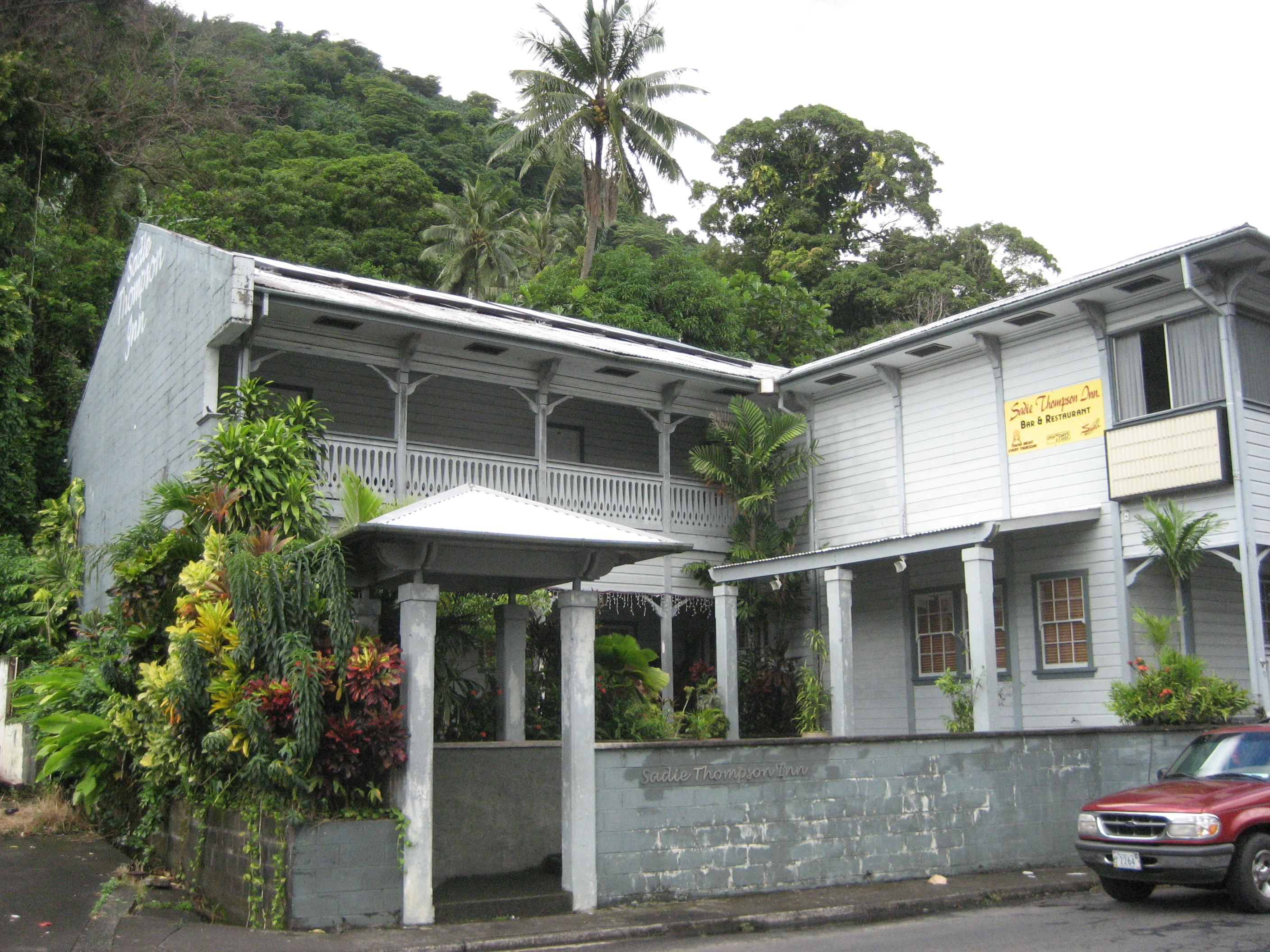 Sadie's as made famous by Somerset Maugham in 'Rain'